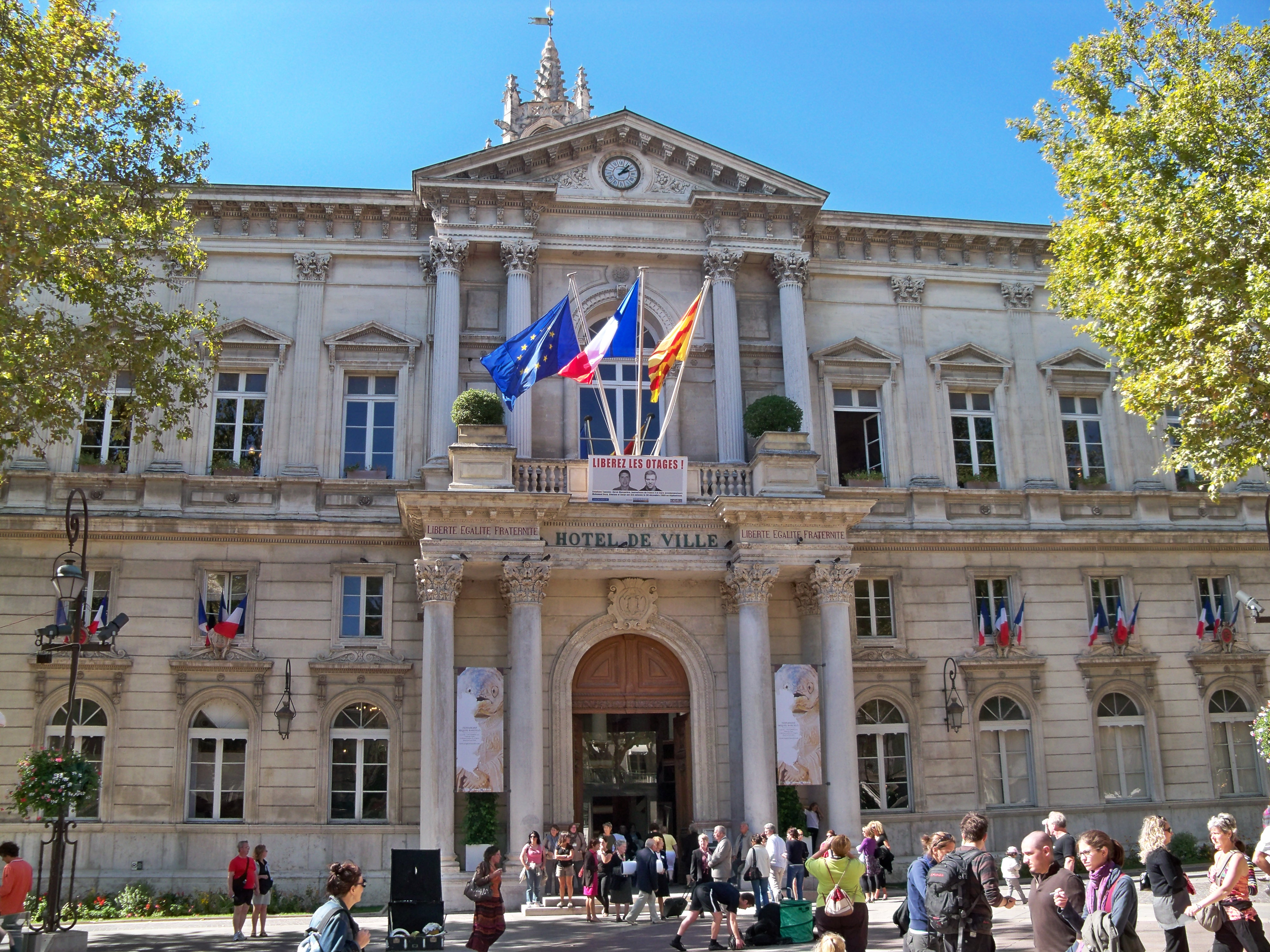 Avignon's town hall